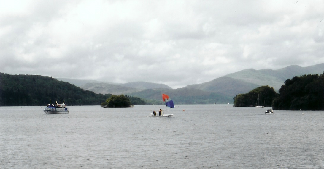 Bowness-on-Windermere. Pic: Sourav Niyogi. Acknowledgement requested when used. Sourav Niyogi is my son. He has permitted the use of this photograph and other photographs of his in Wikipedia or elsewhere. - P.K.Niyogi 12:45, 10 August 2007 (UTC)